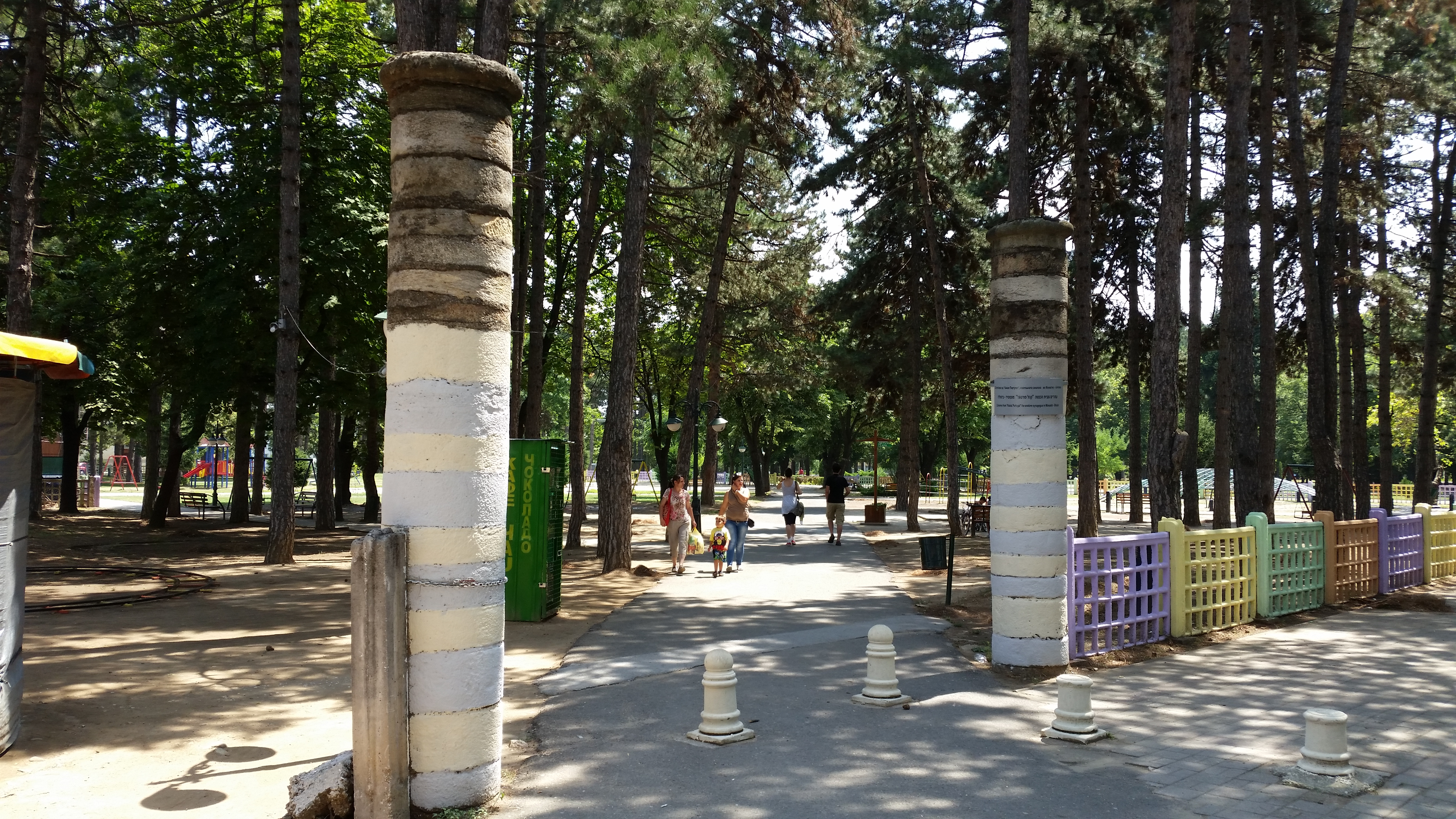 Columns from Synagogue "Kal Portugal" in Bitola